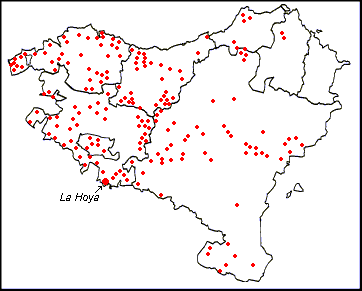 Author: Sugaar Source: X. Peñalver, Euskal Herria en la Prehistoria, 1996. ISBN 84-89077-58-4 Legend: Chalcolithic and Early and Middle Bronze Age sites in the Basque Country (time span: c. 2500-1300 BCE). The important town of La Hoya is indicated.